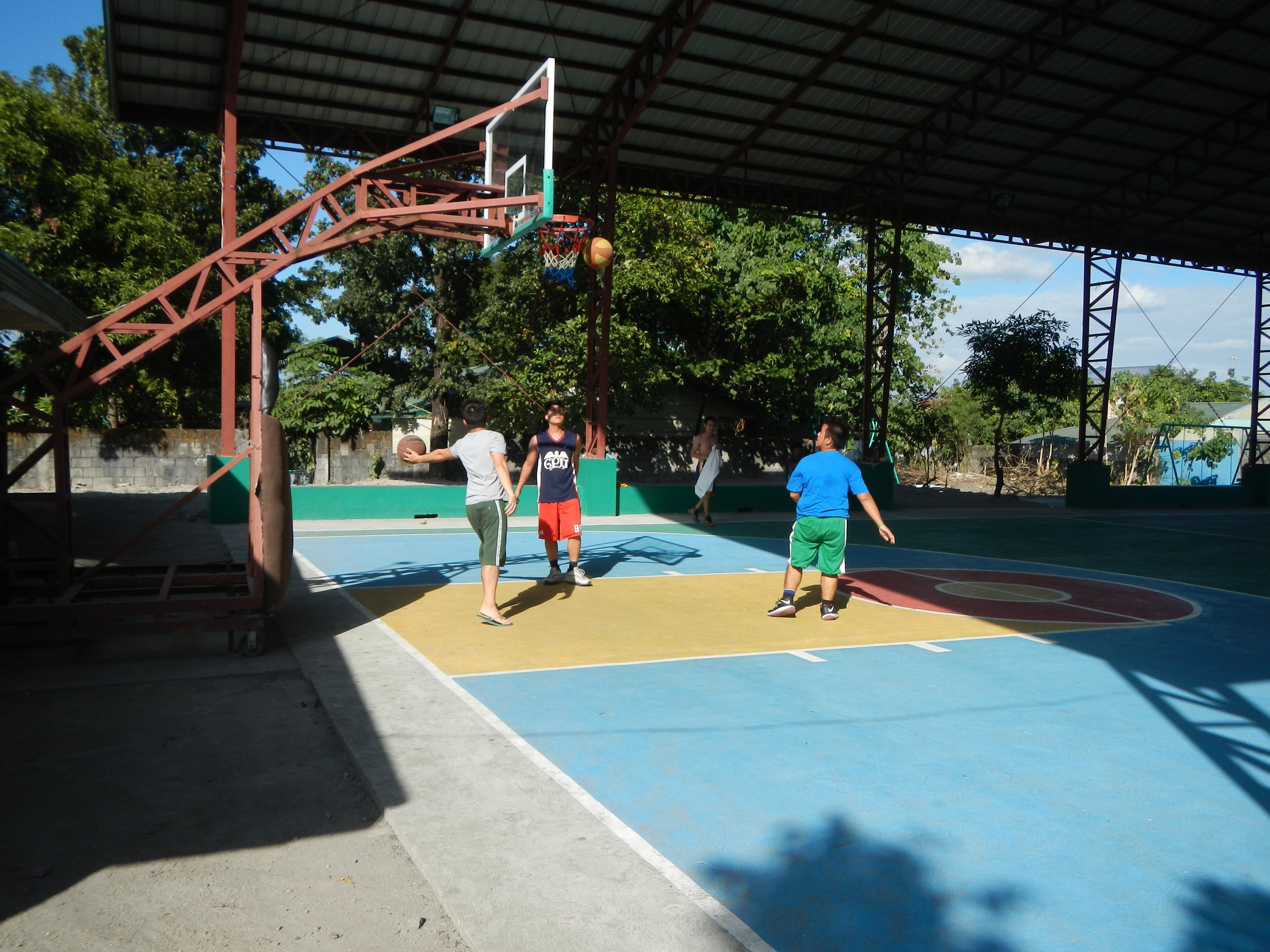 Upload Wizard photos of Fields Avenue in Barangay Balibago and beside it is Barangay Pandan, Angeles[1] City, Pampanga, the Official Seal and Logo, the Flag Seal, the Barangay Hall, and the Flag Seal of Angeles City, all in the Barangay Hall.